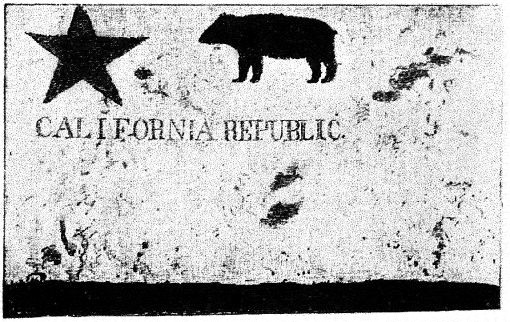 The Original Todd Flag — with a California grizzly bear as a symbol of strength and unyielding resistance. Bear flags were briefly used in 1846 by American settlers of the California Republic episode, in the former Mexican department of Alta California. According to a newspaper article of 1878, one of the Bear Flags may have been designed by William L. Todd, a nephew of Mary Todd Lincoln. An 1890 photograph of the original flag. It and the accompanying Storm Flag (bear flag by Peter Storm), were destroyed on April 18, 1906, in the fires that followed the great San Francisco Earthquake.